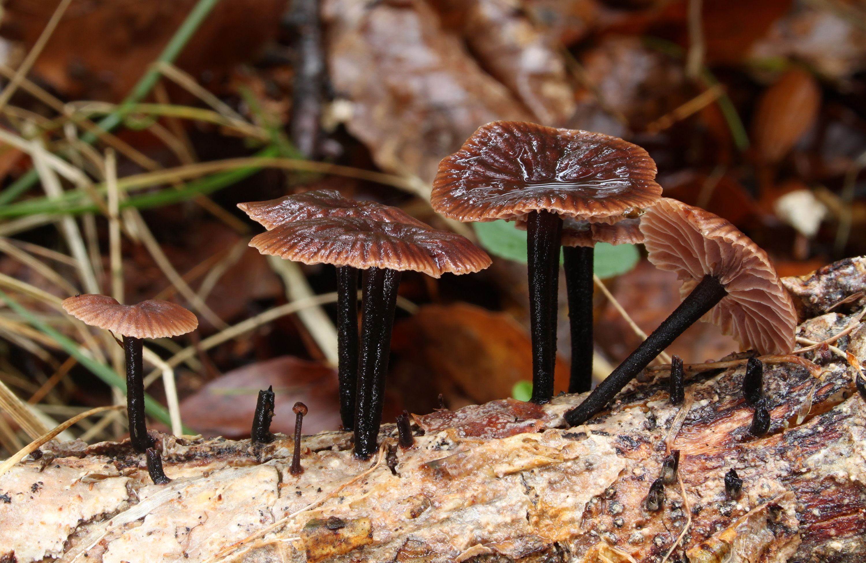 Gymnopus foetidus, Family: Omphalotaceae, Location: Germany, Erbach, Ringingen